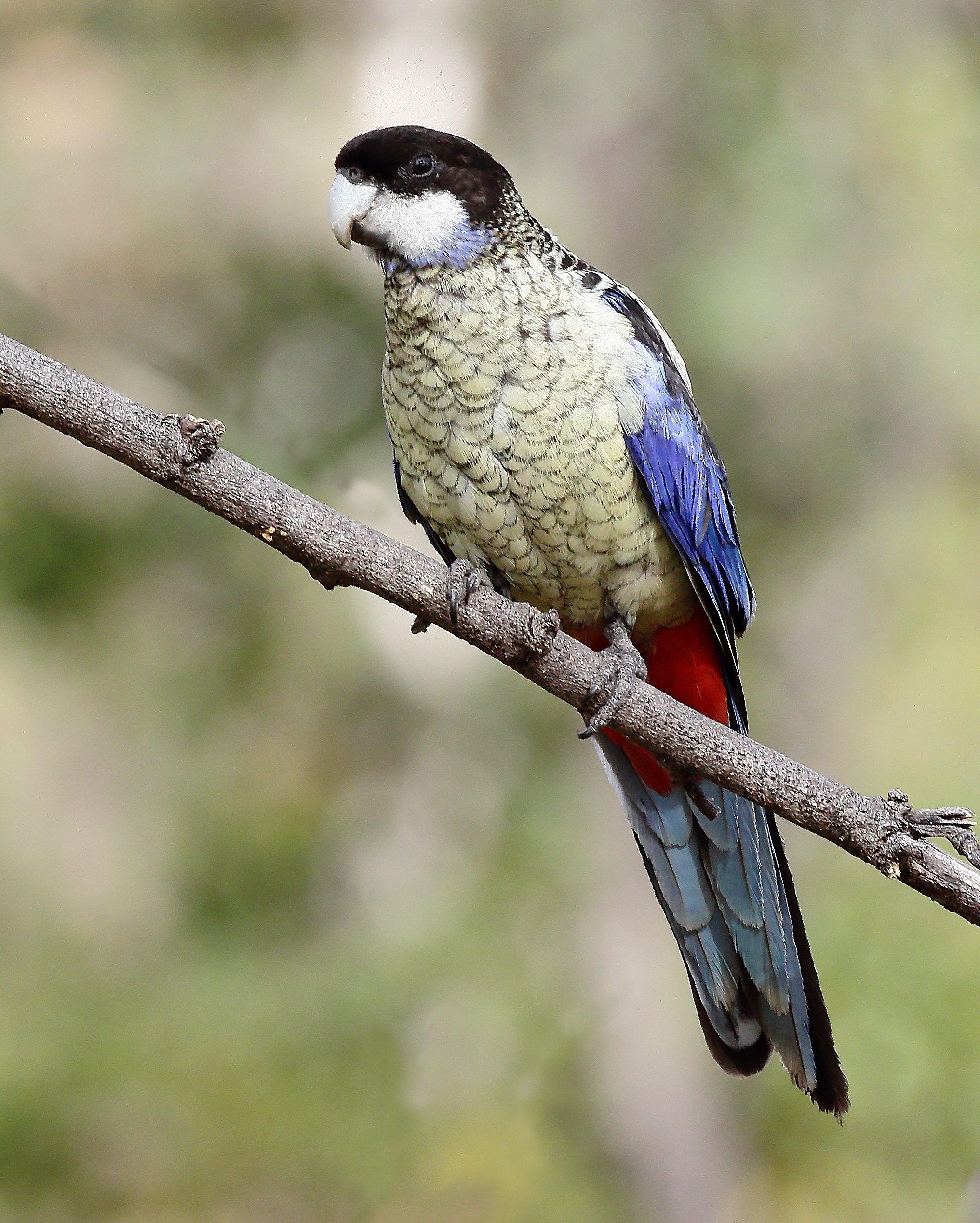 Northern Rosella (Platycercus venustus subspecies venustus) at Edith Falls National Park, Northern Territory, Australia.